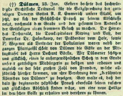 Article about Anna Katharina Emmerick